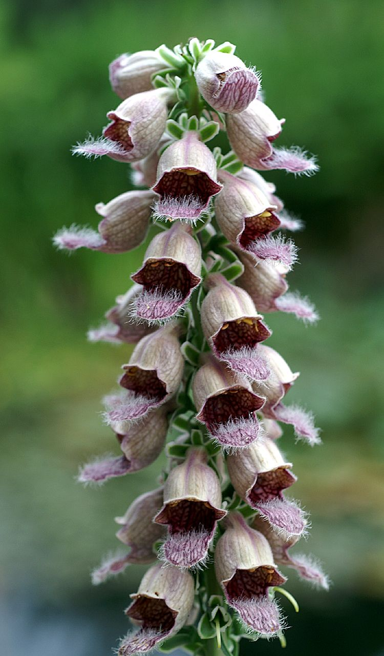 Digitalis ferruginea - flowers